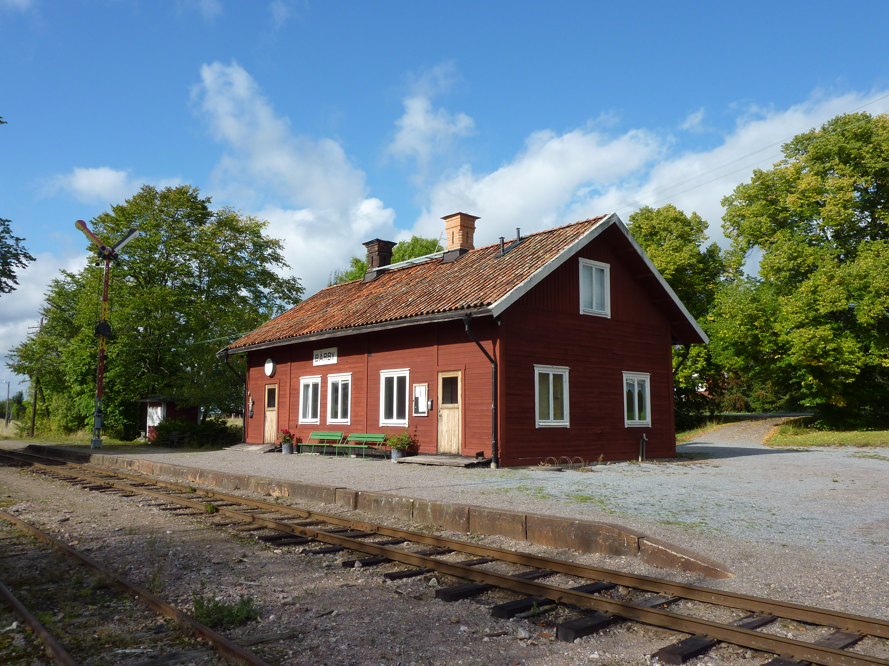 Railway station Bärby, at Upsala-Lenna Railway, Sweden